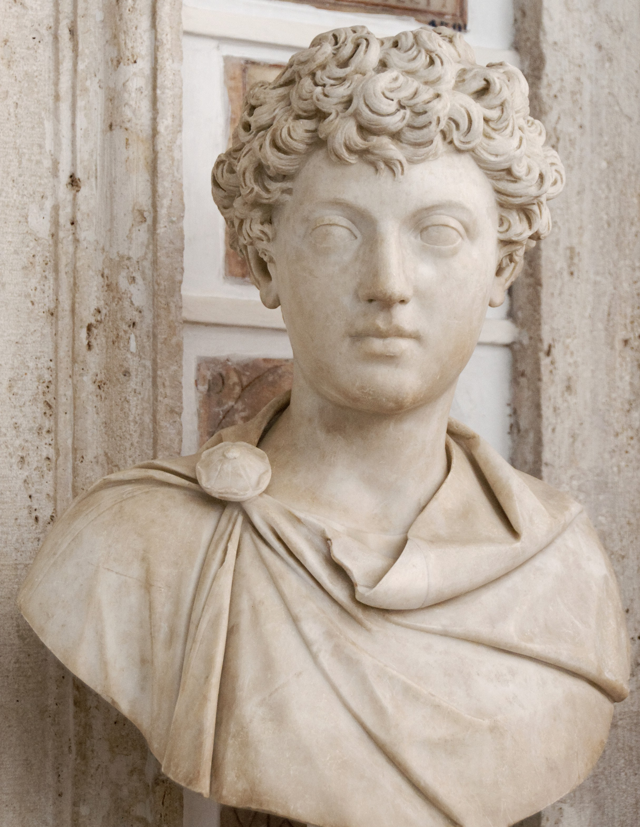 Portrait of Emperor Marcus Aurelius as a boy. Roman artwork.